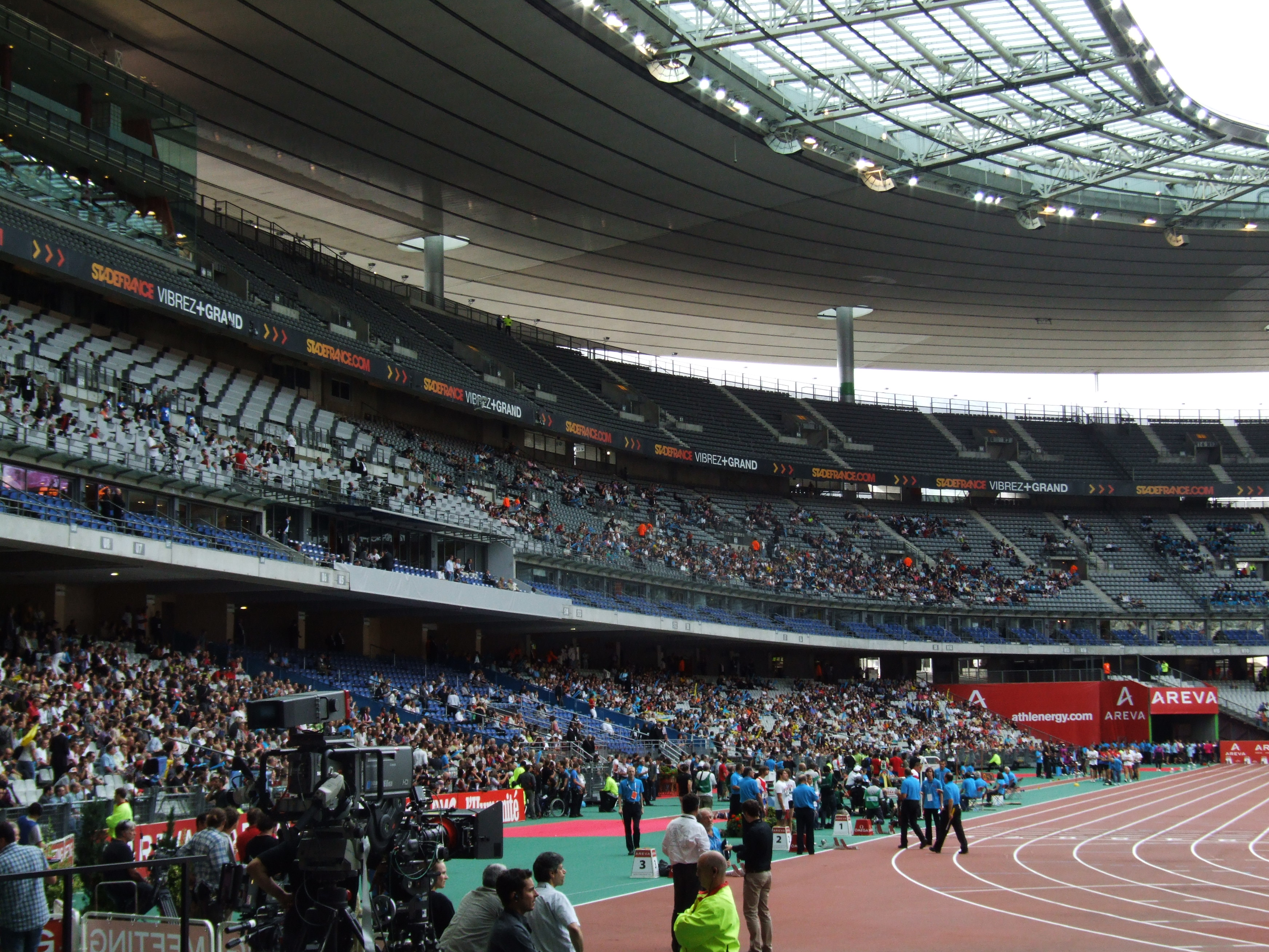 Stade de France before the beginning of the ninth stage of the 2010 Diamond League in Saint-Denis, Paris.